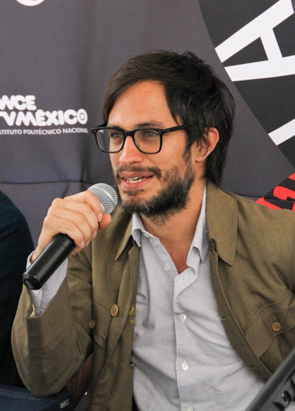 27 de junio. Hotel Condesa DF. Foto: Delia Martínez.